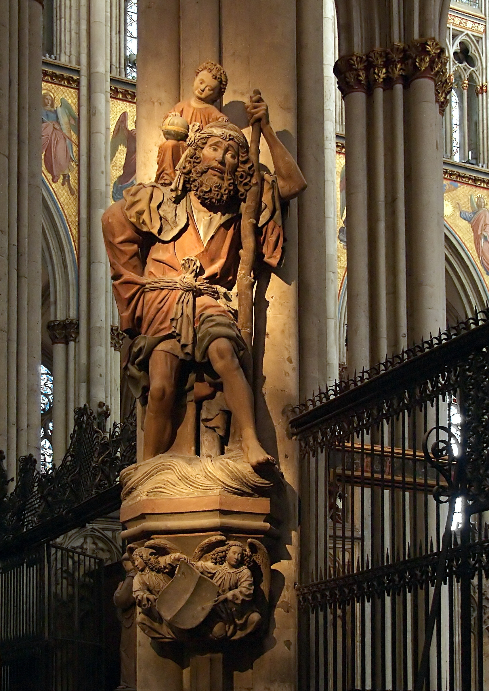 Statue of Saint Christopher at Cologne Cathedral, created ca. 1470 by Tilman van der Burch